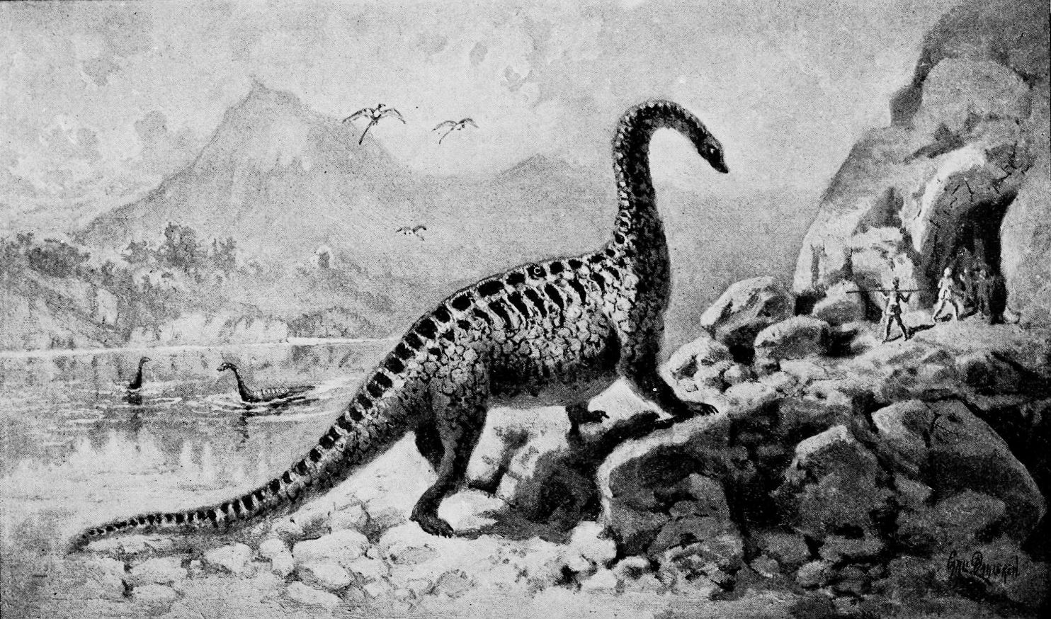 Restoration of Amphicoelias.